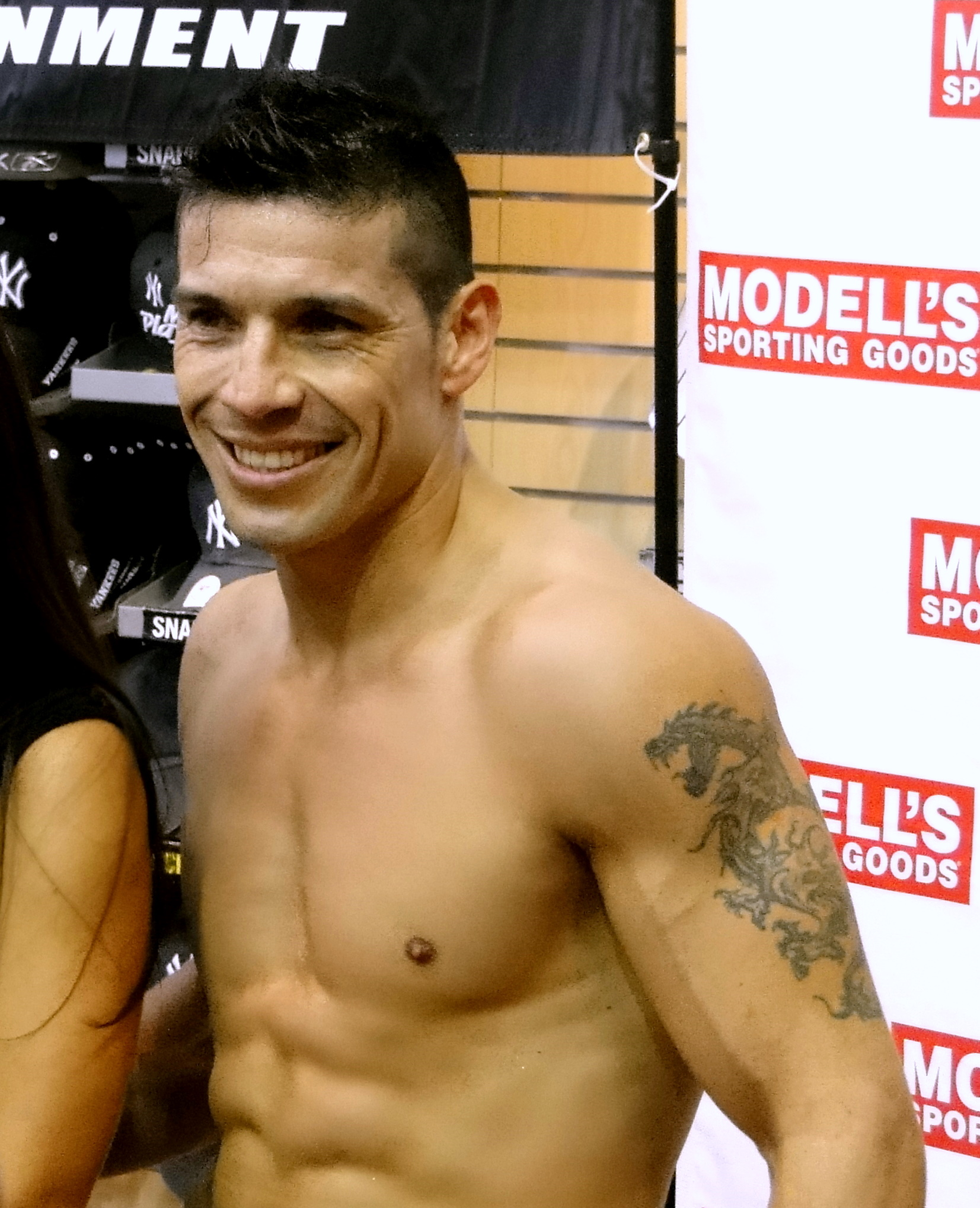 Sergio Gabriel Martínez open workout, Modell's, 9/27/11.